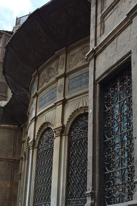 Photo of an ancient Egyptian monument from a very popular street in Egypt, Al muizz street in el hussien area , this area and especially All muizz street is the biggest street which contains the most Islamic monuments in the whole world! It is over hundred years old.